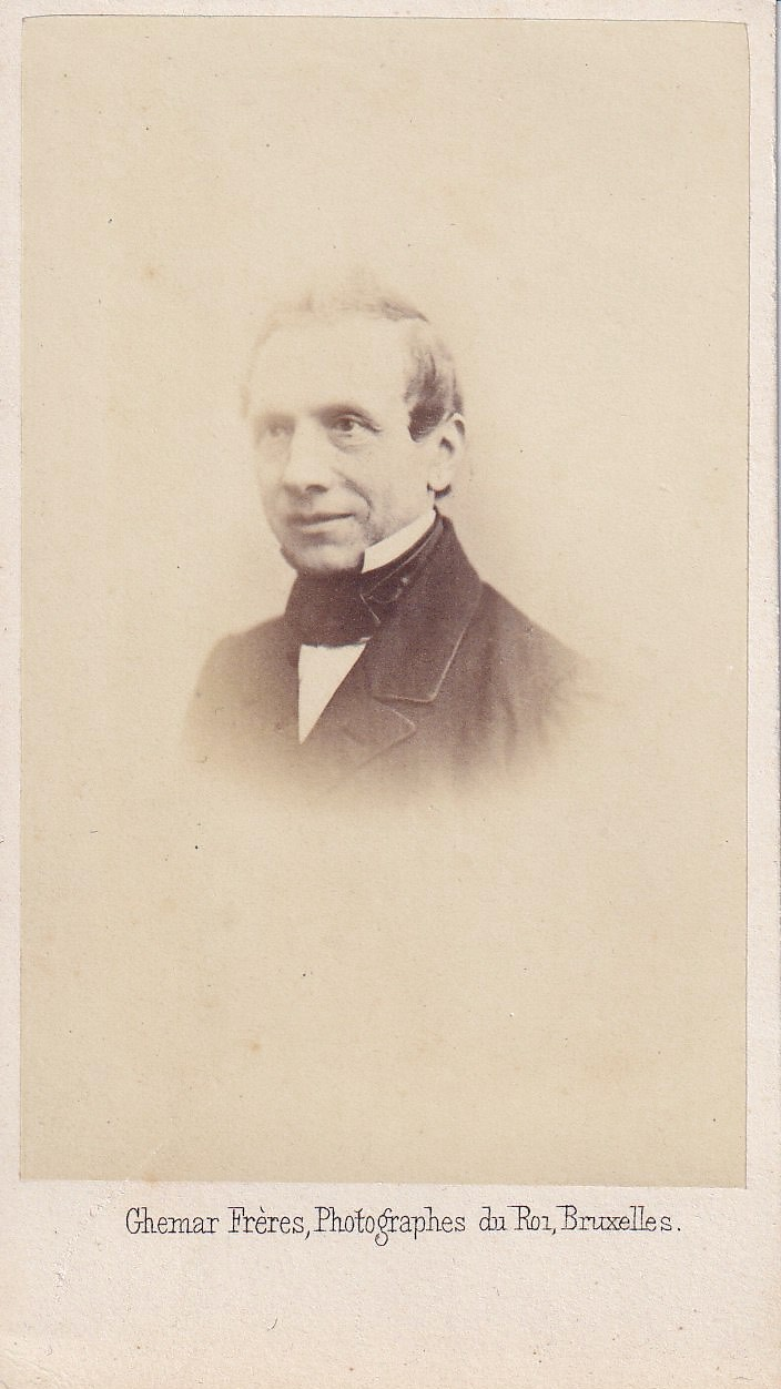 Auguste Van Dievoet, legal historian